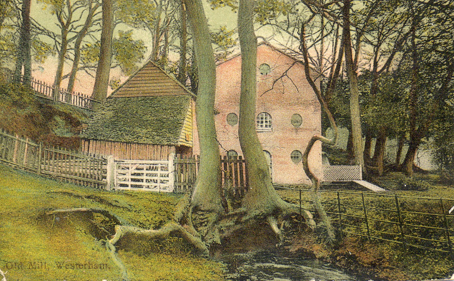 The mill, Westerham. Postcard datestamped 25 February 1912c